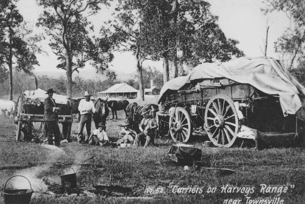 Men and wagons at Harveys [Hervey] Range Hotel [Old Georgetown Road, Thornton's Gap, Hervey Range], near Townsville, ca. 1912. Originally Eureka Hotel, now a heritage listed site. heritage-register.